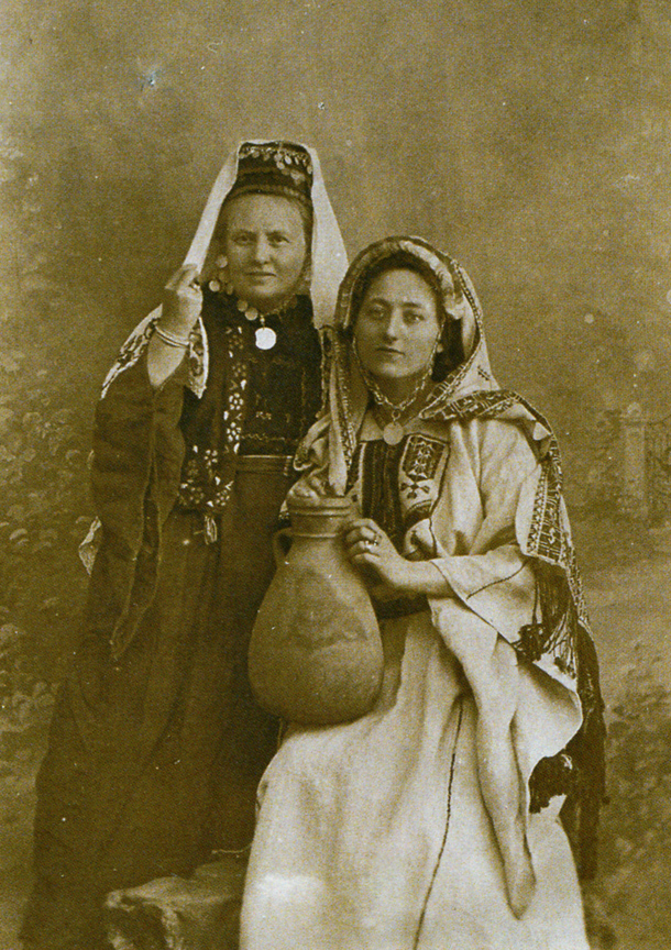 "Two Pilgrims" (Myra Albert Wiggins - right; Lucille Park - left). Tipped in photograph from Wiggins' book.